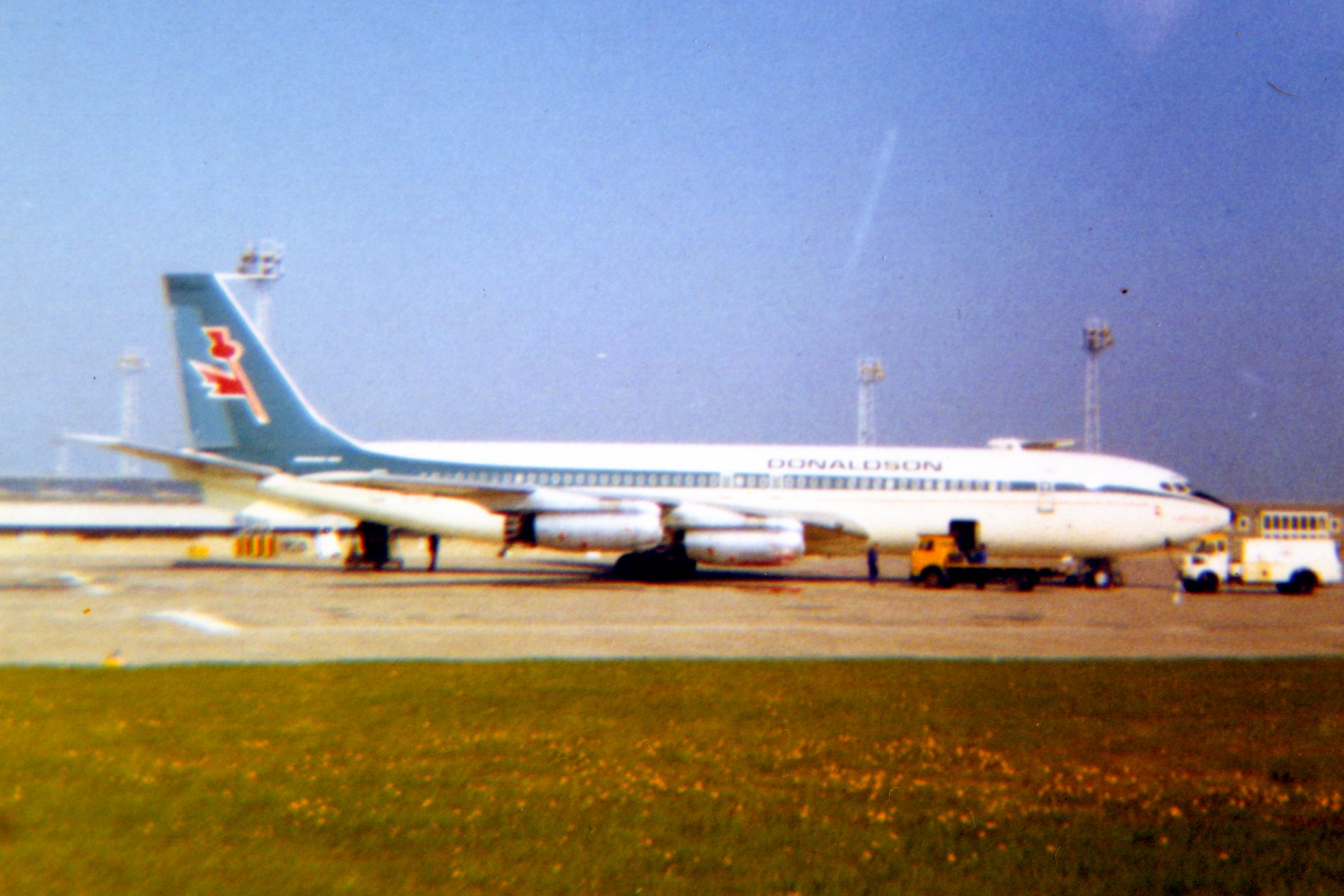 Donaldson International Airlines Boeing 707 at Prestwick Airport, Scotland